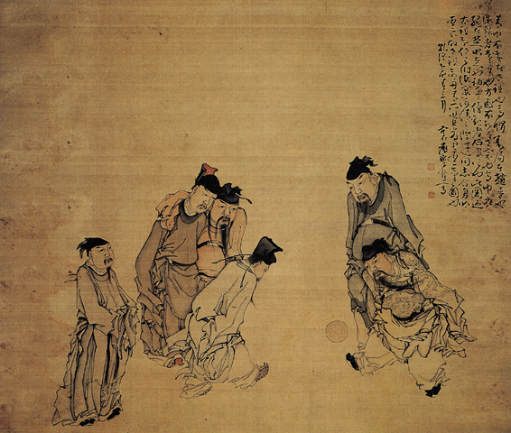 Painting of Cuju